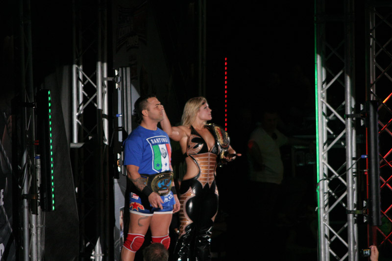 Santino Marella & Beth Phoenix making their entrance in Milan,Italy